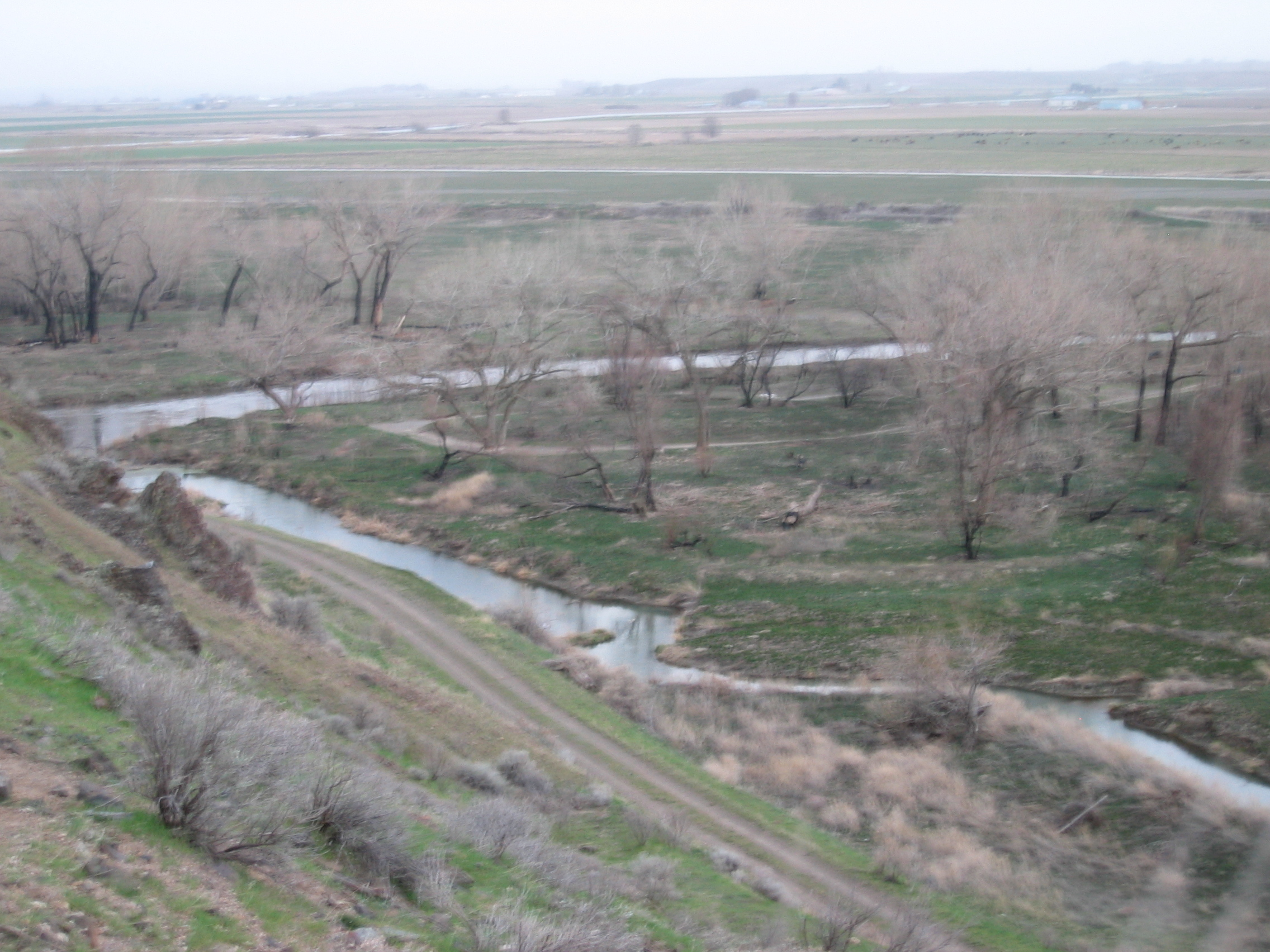 Creek that surrounds the Malheur Butte, Ontario Municipal Airport in the background.